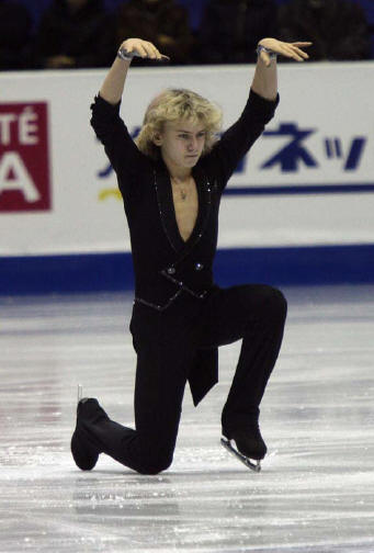 Artur GACHINSKI (RUS) Grand Prix Final 2008 – Juniors